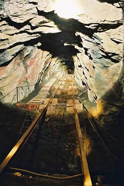 Looking up a shaft in the Honister Slate Mine. The angle of inclination is about 50 degrees.